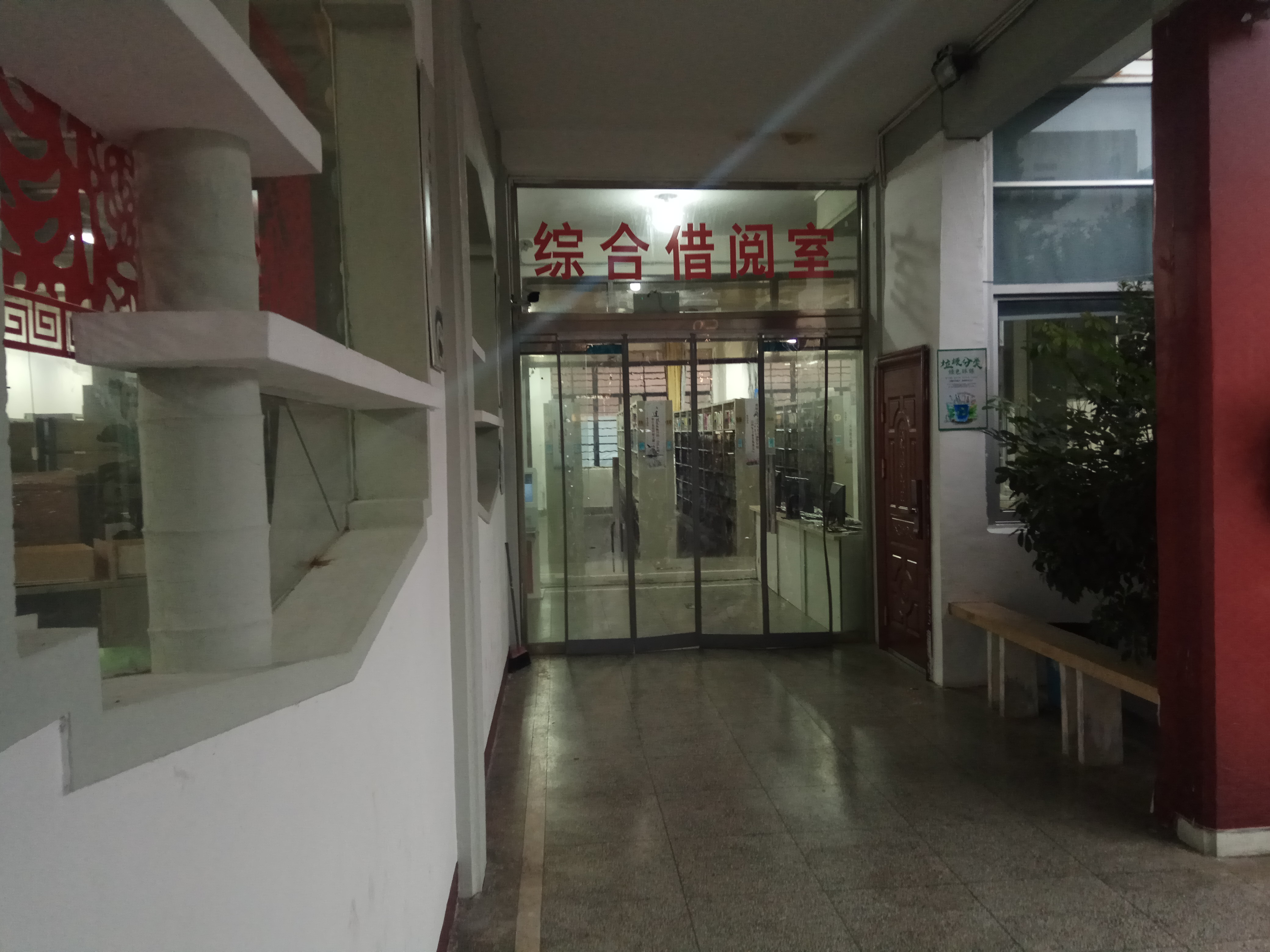 Yuhuan Library, Yuhuan City, Zhejiang, China-2